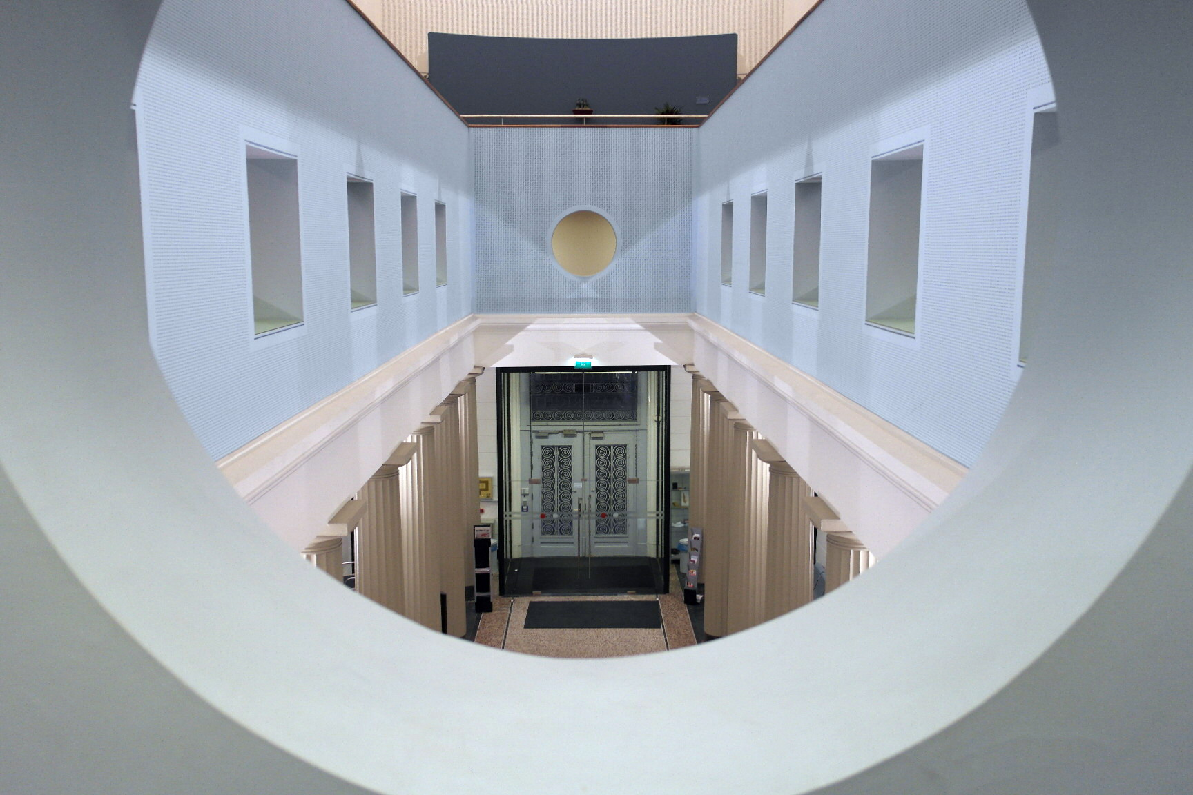 Maastricht, the Netherlands. Interior of Tweede Franciscanerkerk, a former Franciscan church, then the palace of justice, now the main administration building of the University of Maastricht. View from the gallery towards the west of the former nave of the church, now the entrance hall.